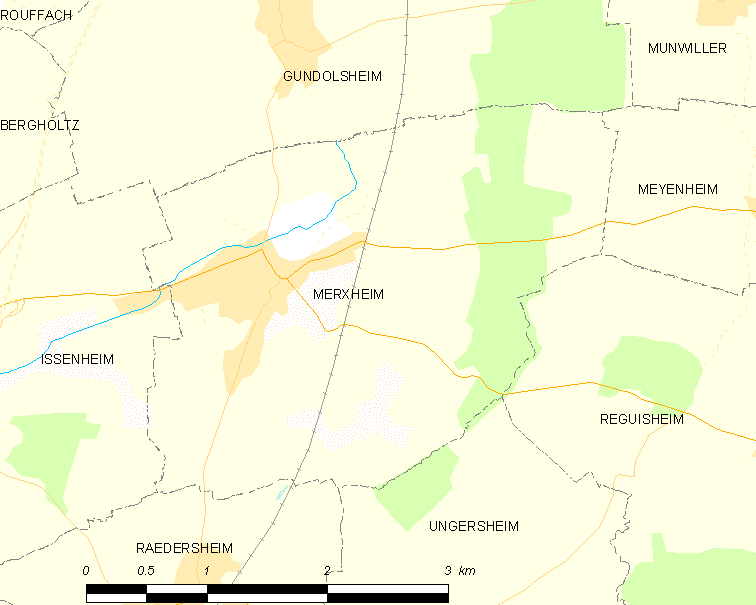 Map of French municipality